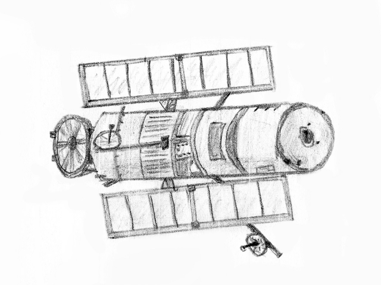 Hand-drawn pencil sketch done several years ago.